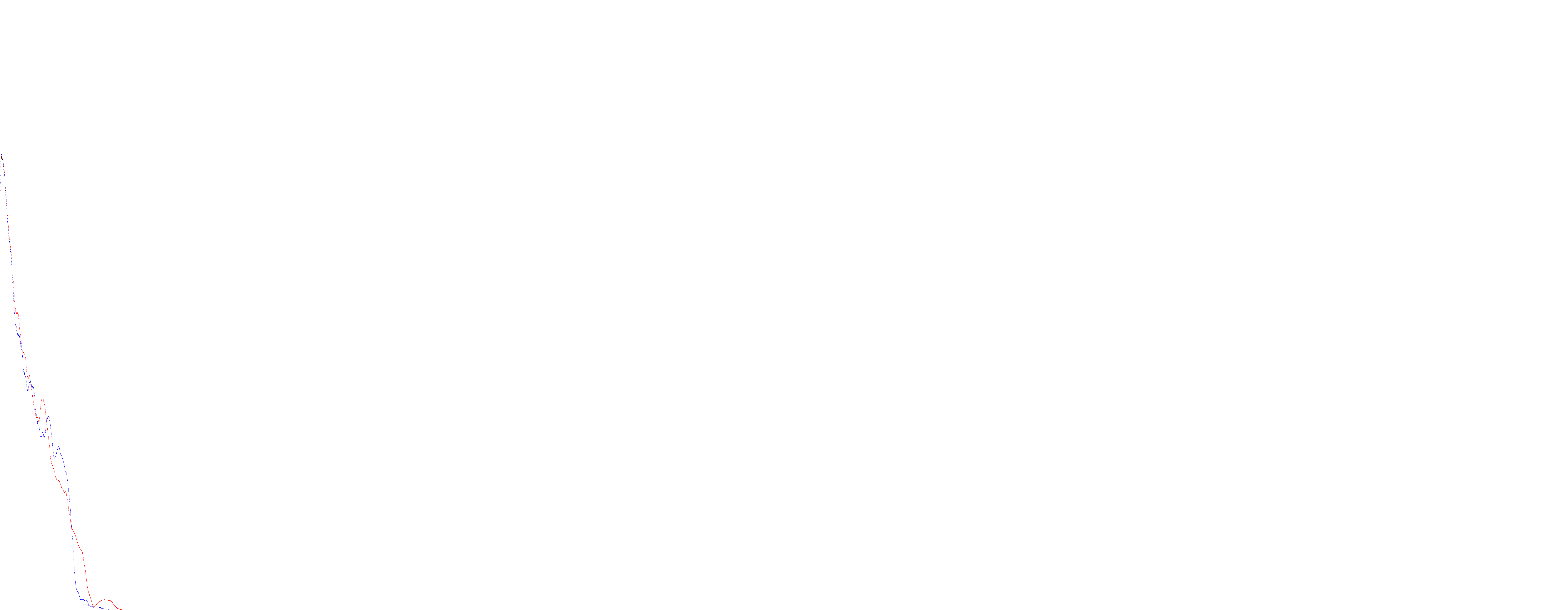 A graph of mobility for the Biham-Middleton-Levine traffic model corresponding to the lattice in File:Bml x 512 y 512 p 38 iterated 0.png and File:Bml x 512 y 512 p 38 iterated 32000.png. The vertical axis represents the number of cars that can move, and the horizontal axis represents the turn. The vertical axis is normalized so tha the top edge is one and the bottom edge is zero; likewise the horizontal axis has a range of 0 to 32000. This was created with C++. Source code is located at user:Purpy Pupple/BML.